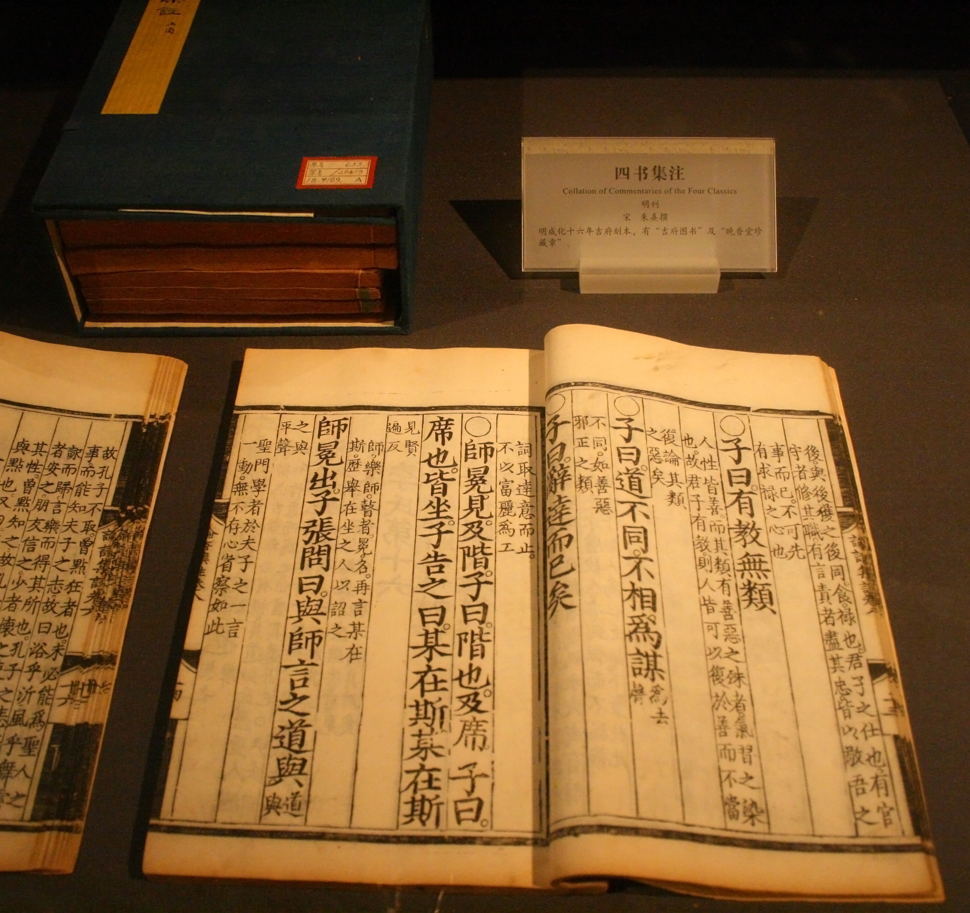 Commentaries of the Four Classics, composed by Zhu Xi of South Song Dynasty and published in Ming Dynasty